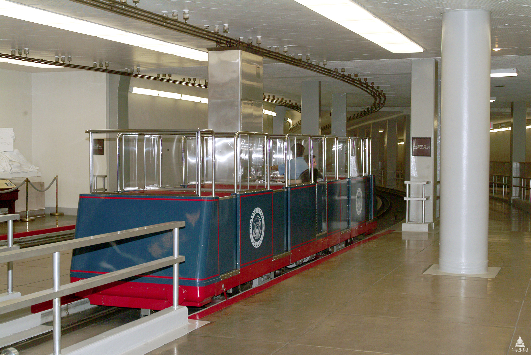 2003 Photograph. This official Architect of the Capitol photograph is being made available for educational, scholarly, news or personal purposes (not advertising or any other commercial use). When any of these images is used the photographic credit line should read “Architect of the Capitol.” These images may not be used in any way that would imply endorsement by the Architect of the Capitol or the United States Congress of a product, service or point of view. For more information visit